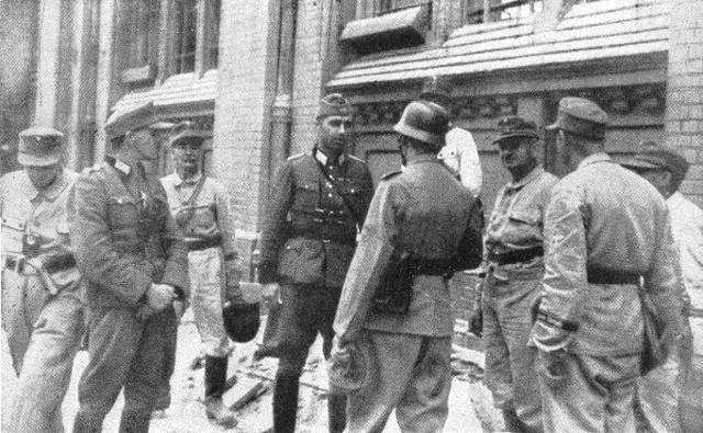 Warsaw Uprising. This photo shows German demolition unit (Sprengkommando) and his commander – major Sarnow (in the middle, fourth from the left). Sprengkommandos, composed of members of the Technische Nothilfe, were primarily responsible for planned destruction of Warsaw after the 1944’ uprising. This photo was taken by Alfred Mensebach – German architect and volksdeutsch from Leszno who documented the planed destruction of Warsaw. His album with the photos from Warsaw Uprising was discovered in Leszno after the war by Polish authorities. Original description of the photo: “Issuing the orders for the Sprengkommando.